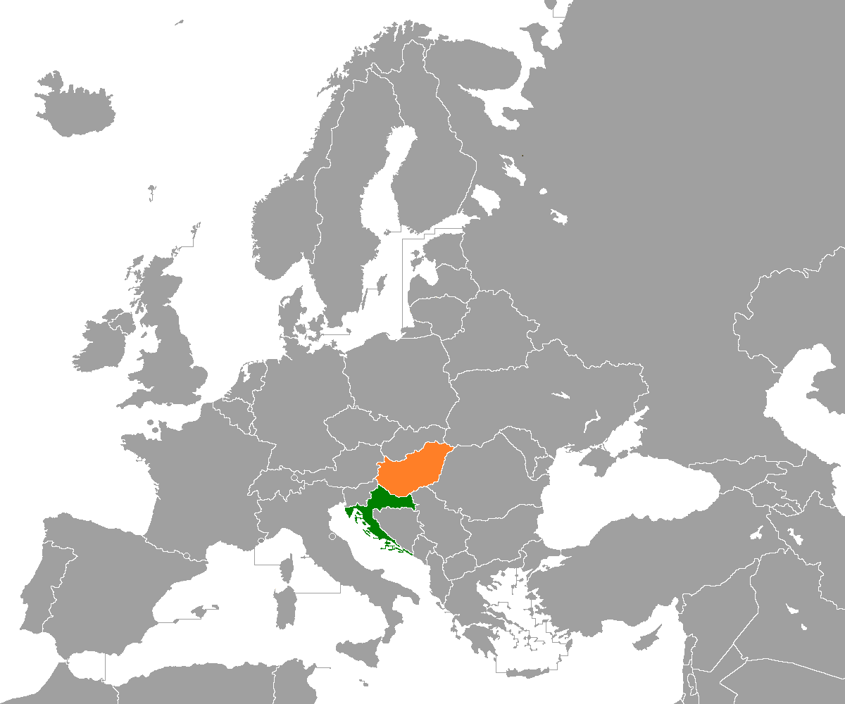 Croatia-Hungary locator map.